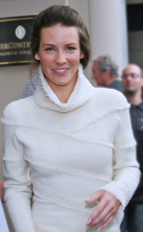 Evangeline Lilly at the 2008 Toronto International Film Festival